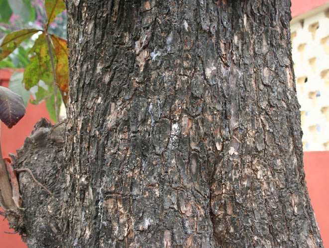 Desi Badam Terminalia catappa in Kolkata, West Bengal, India.